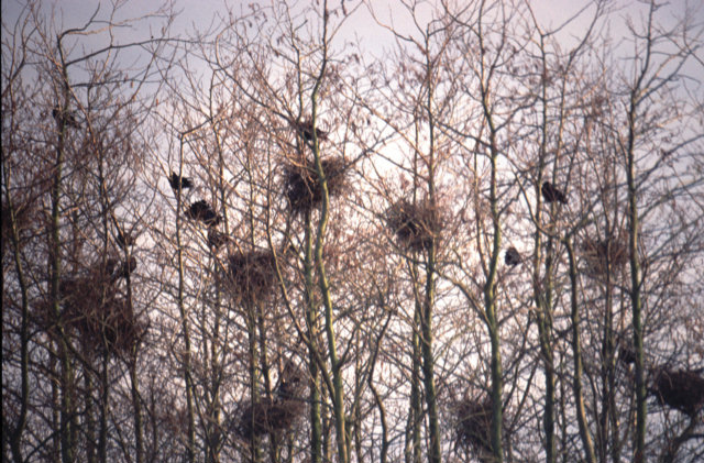 Colony of rooks along the A50 motorway just north of Apeldoorn. Taken with Minolta body and Sigma 600 mmm f/8 mirror telephoto lens.